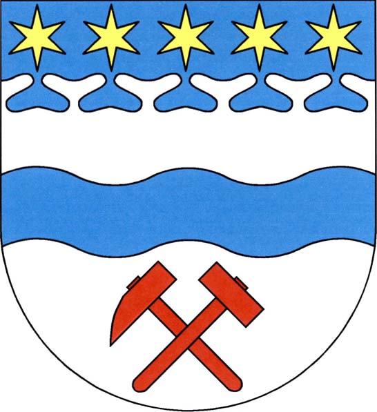 Coat of arms of Bublava municipality, Sokolov District, Czech Republic.